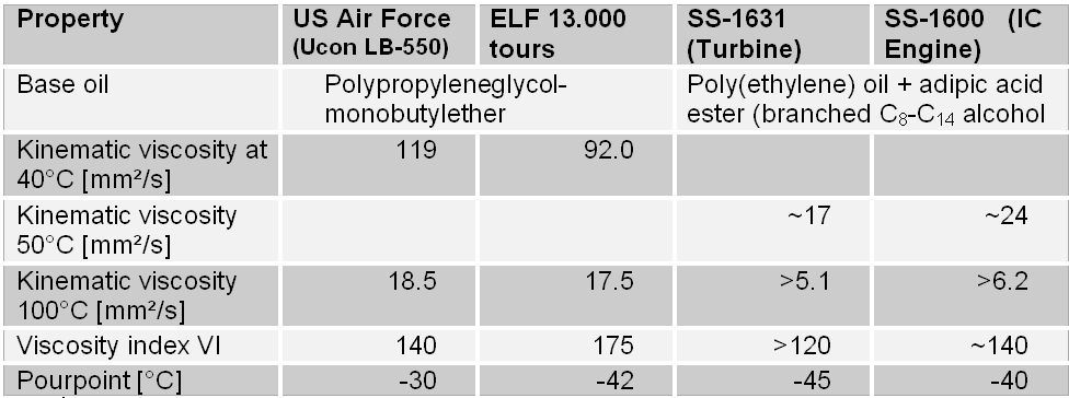 Viscosimetric properties of base oils